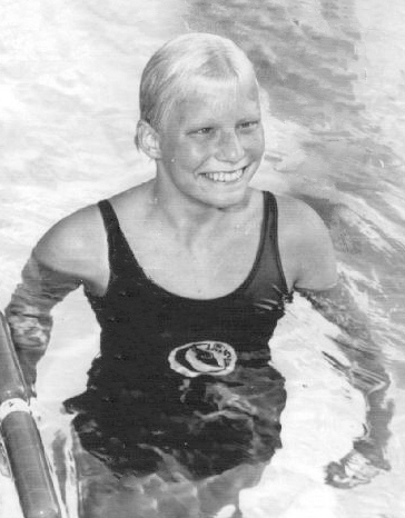 1962 Womens National Swim Meet Carolyn House and Sharon Finneran Press Photo